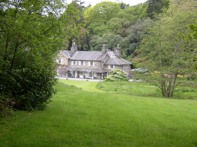 Peniarth Uchaf . Taken from the road/footpath opposite.